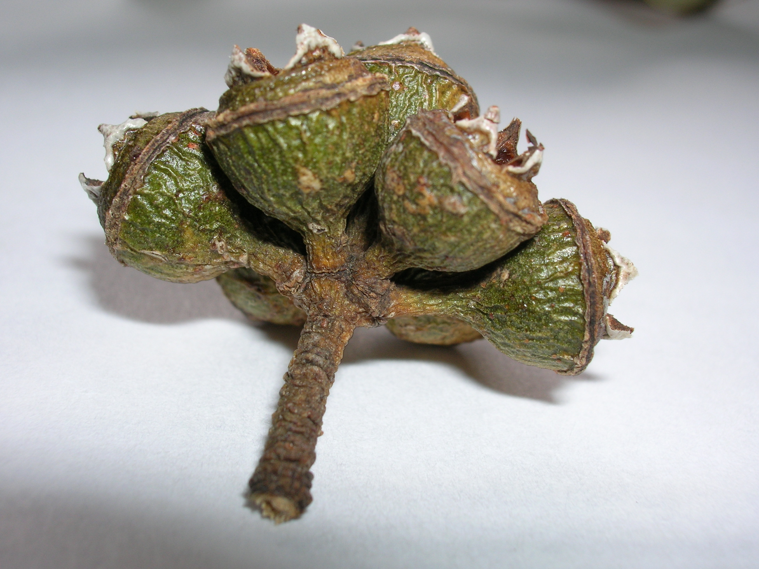 Eucalyptus tereticornis (fruit). Location: Maui, Makawao